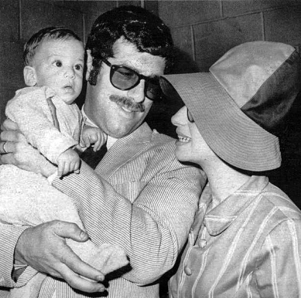 Press photo of Elliot Gould and Barbra Streisand with their baby, Jason.